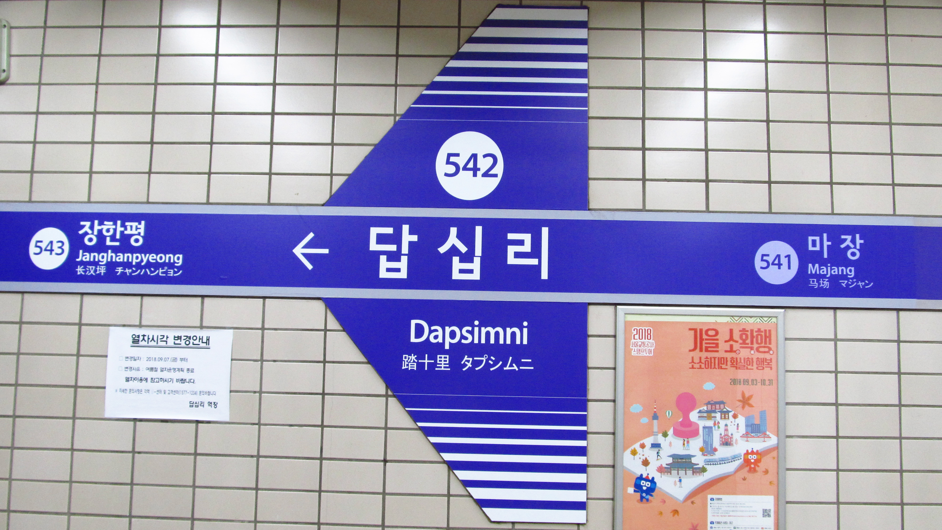 A sign of Dapsimni Station on Seoul Subway Line 5